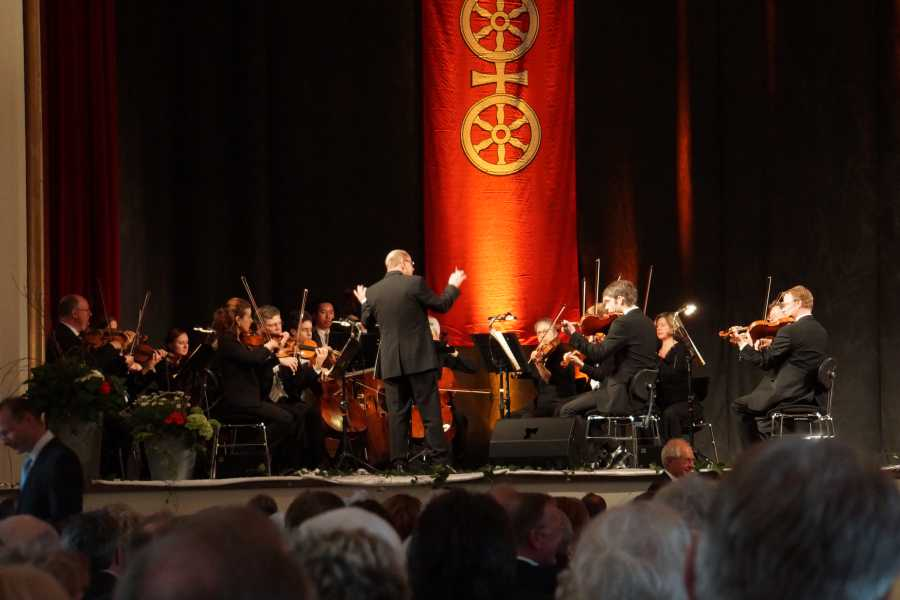 Philharmonisches Staatsorchester Mainz, performing in the electoral palace, Mainz